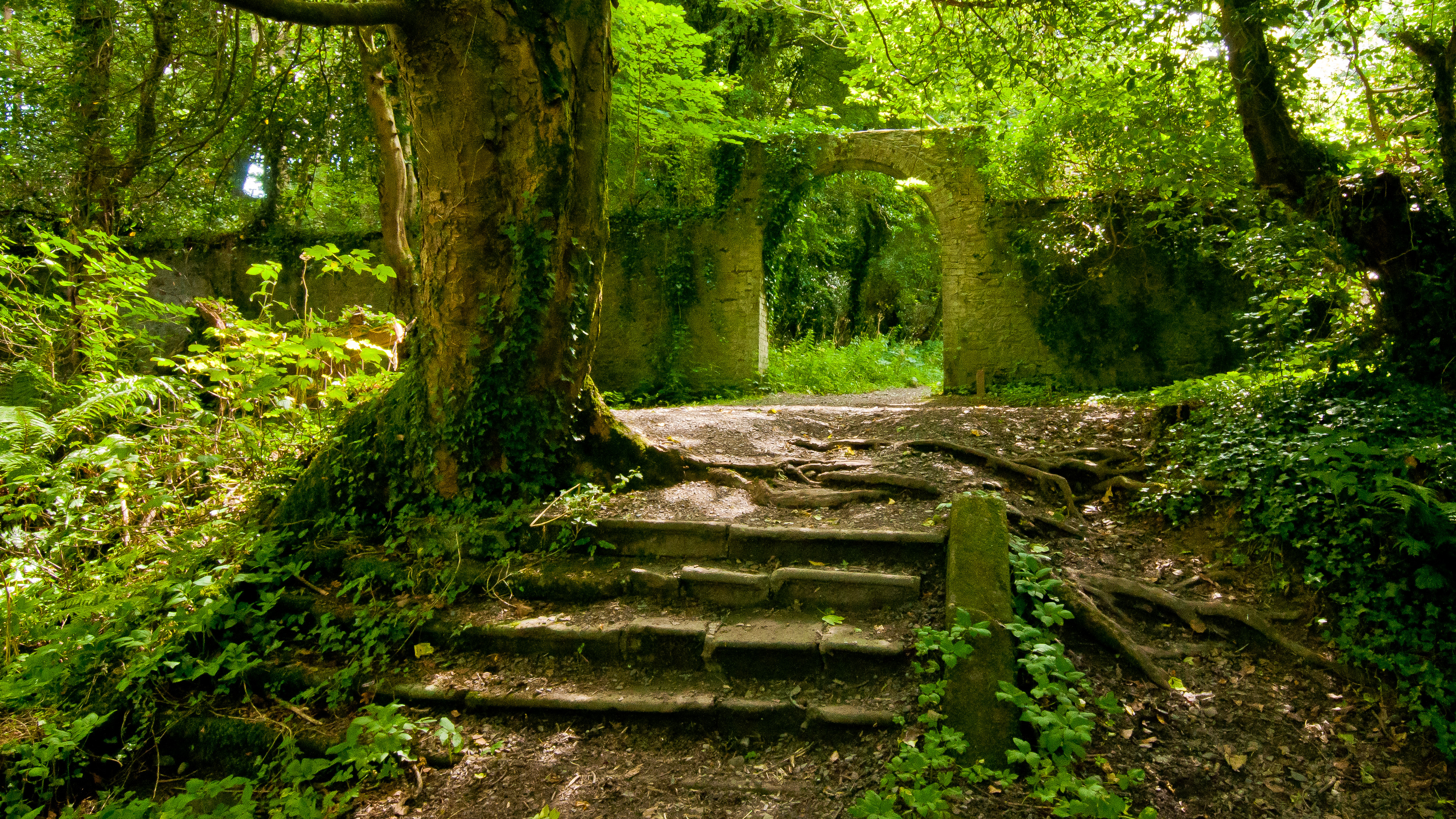 The ruins of the formal gardens of Killakee Estate, Montpelier Hill, Dublin, Ireland